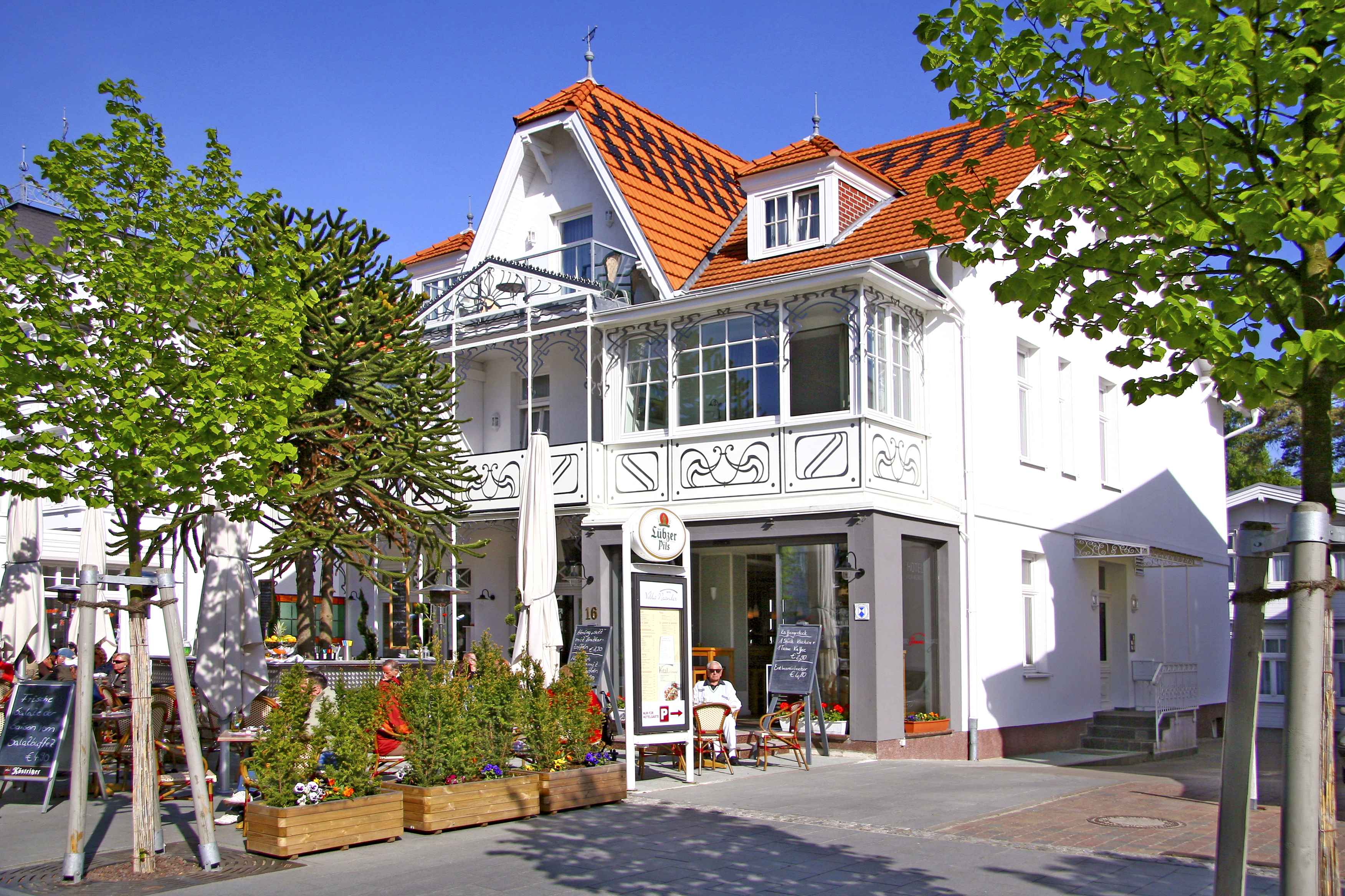 Hotel Villa Neander Hauptstraße 16 18609 Ostseebad Binz, Insel Rügen. Außenaufnahme - Jugendstil - Veranda - Balkon.